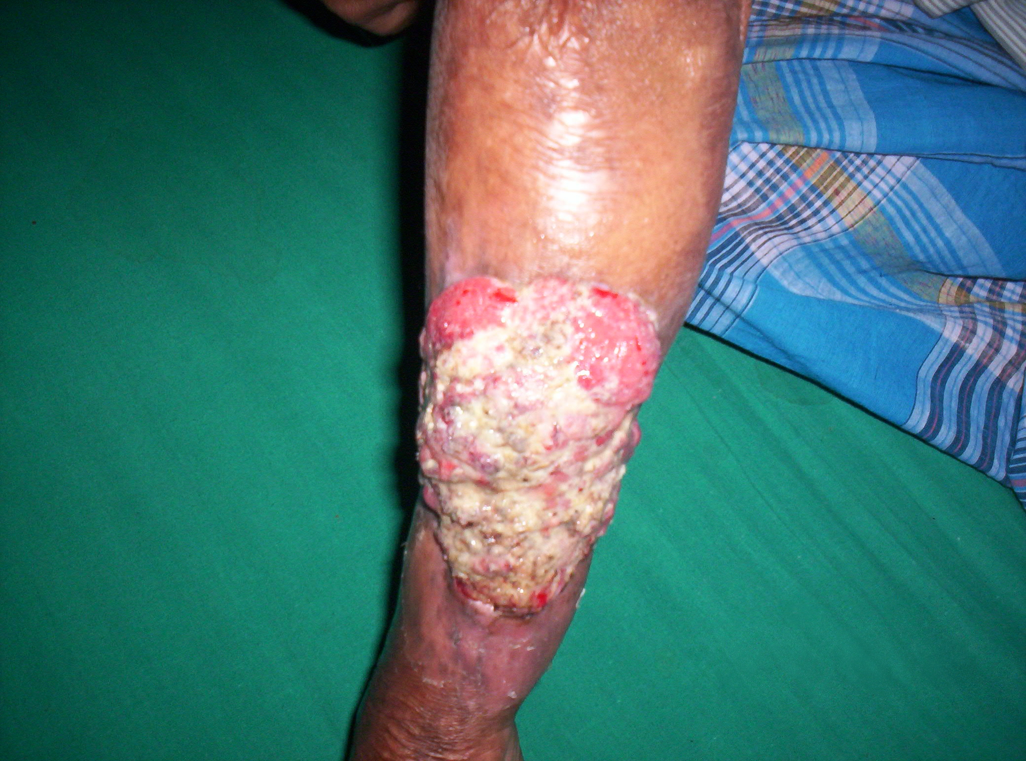 A patient having Marjolin's ulcer on his arm following long standing scar due to a burn.